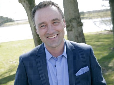 Danish journalist and tv personality.